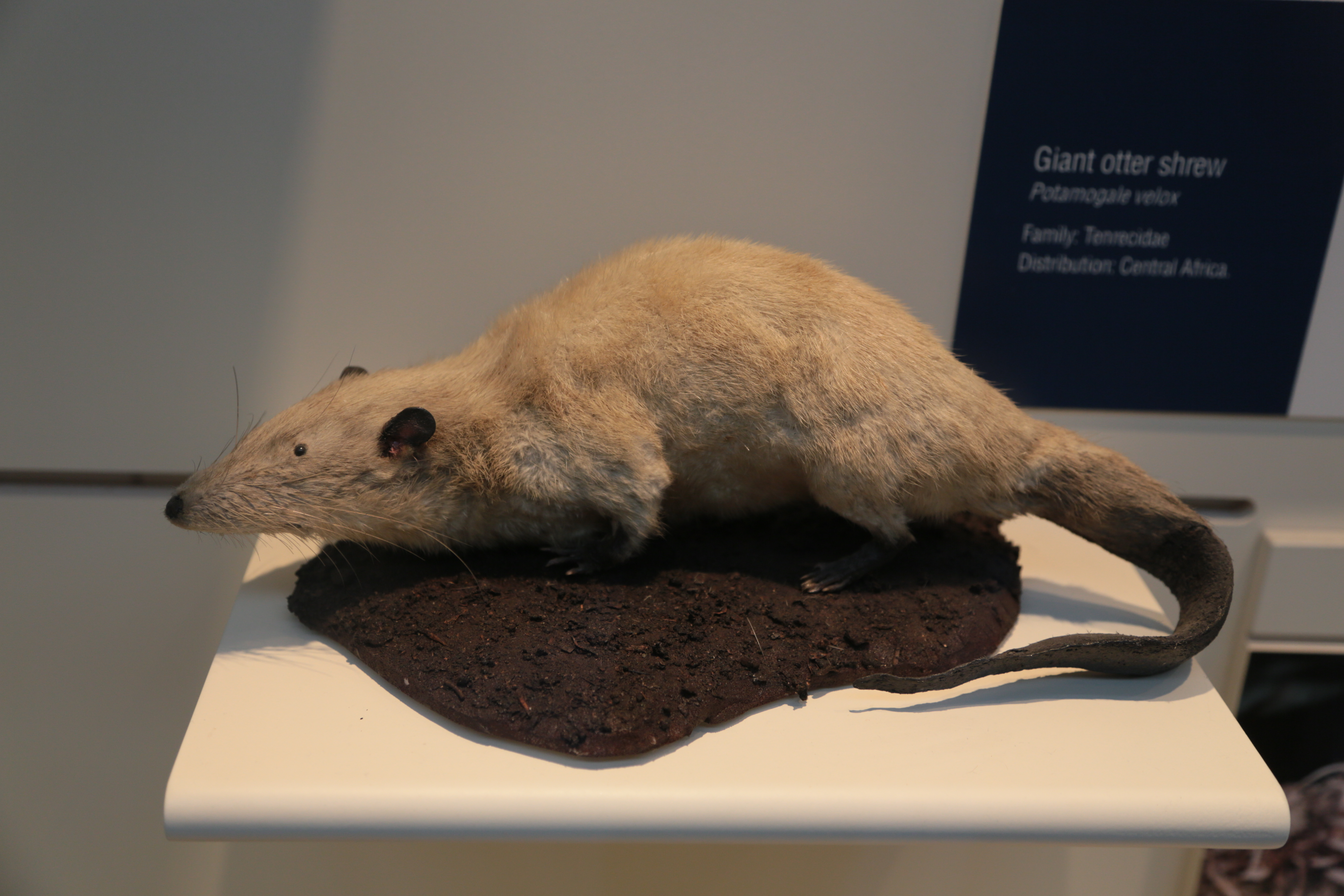 Giant otter shrew (Potamogale velox), Natural History Museum, London, Mammals Gallery